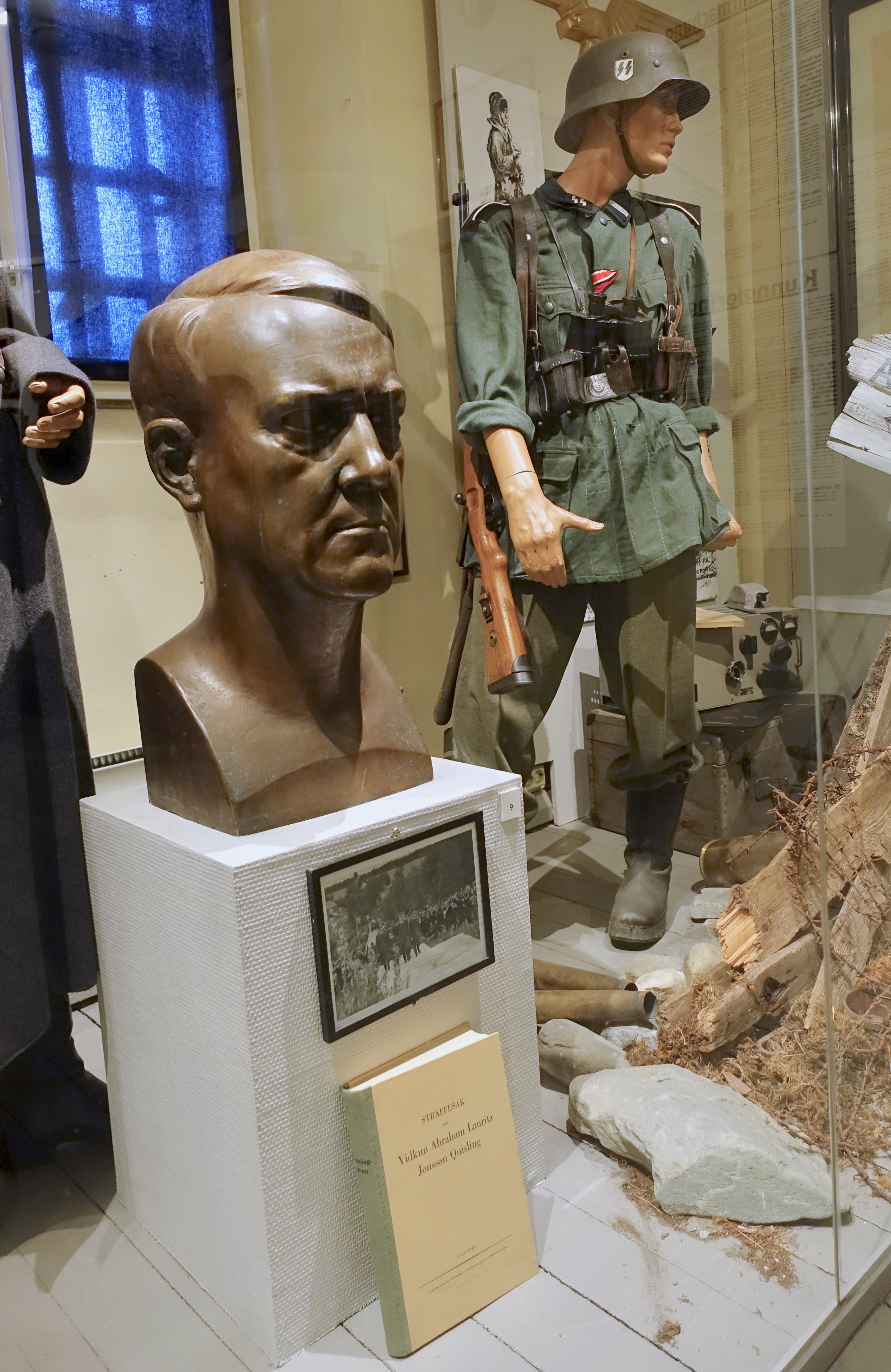 Bronze bust by sculptor Wilhelm Rasmussen of Vidkun Quisling, head-of-state in Nazi Germany occupied Norway 1942 – 1945 and leader of the Norwegian Nazi party Nasjonal Samling (NS) 1933 – 1945. Also a German uniform (with SS-Rottenführer insignia) used by a Norwegian volunteer in a collaborationist formation of the Waffen-SS in World War 2. Photo taken on 7th March 2019 in the World War 2 exhibition at the Norwegian National Museum of Justice (Justismuseet) in Trondheim.